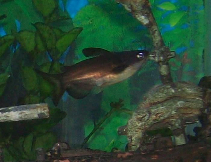 Possible Horabagrus brachysoma catfish.